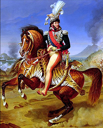 Equestrian portrait of Joachim Murat